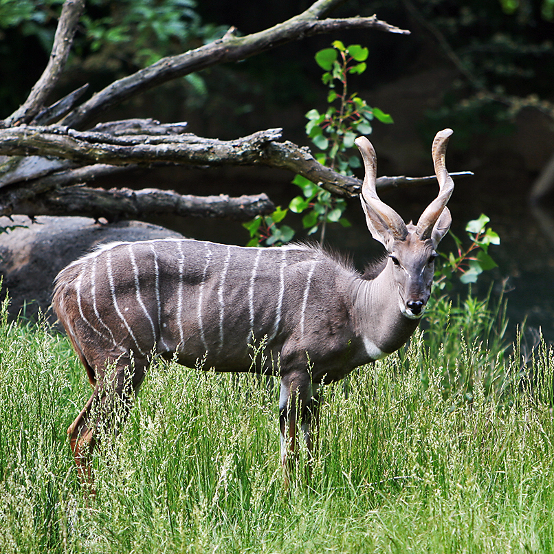 thanks to this lesser kudu for chosing a beautiful place to pose. He walked & walked until he stood right in front of this fallen tree, with a pond behind him and the light hitting him perfectly. somehow i think he knew...